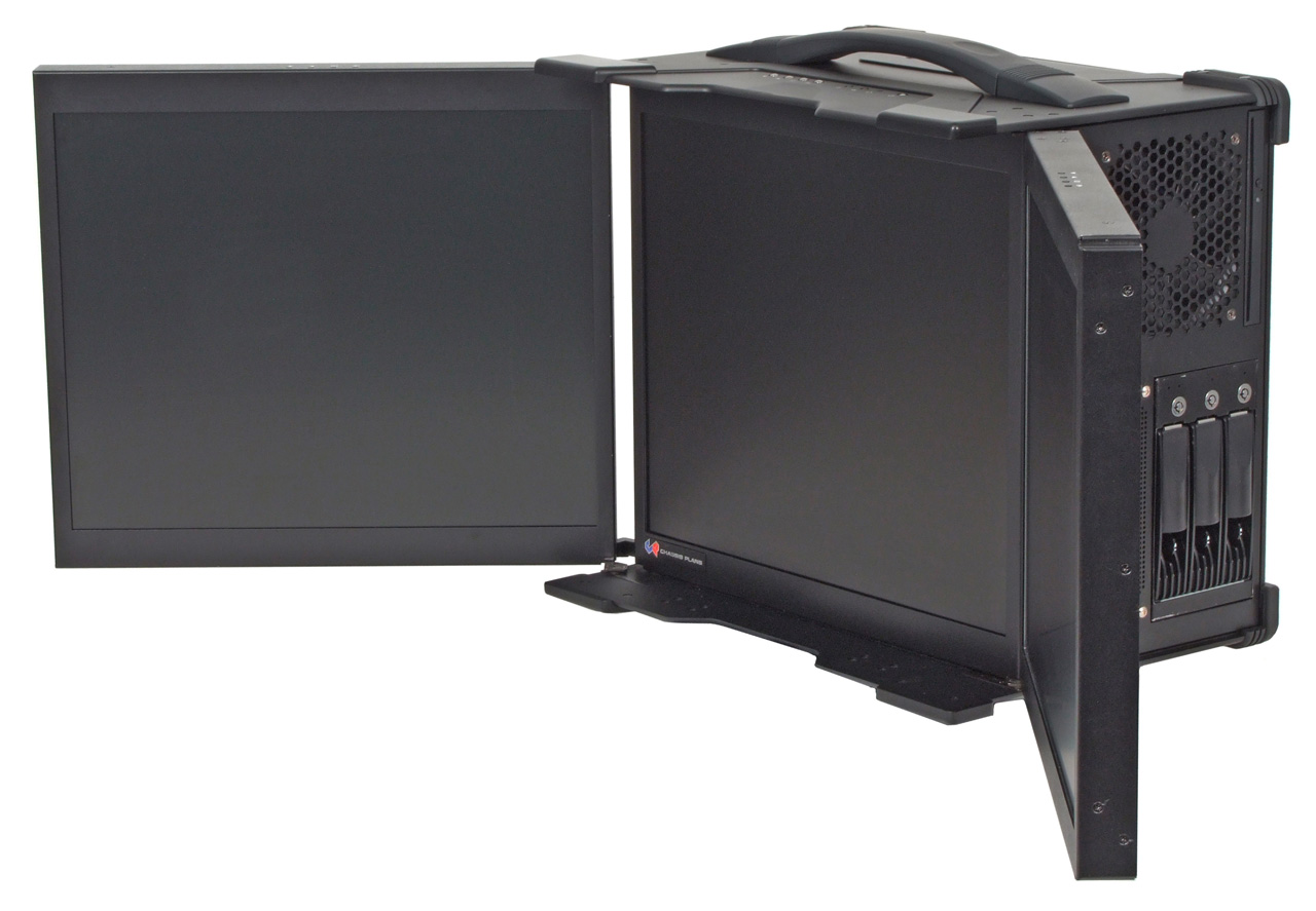 Chassis Plans MP3X17 Rugged Portable Computer Author: David Lippincott for Chassis Plans